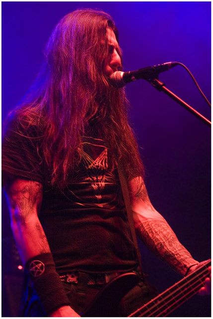 Septic Flesh live at Brutal Assault festival.